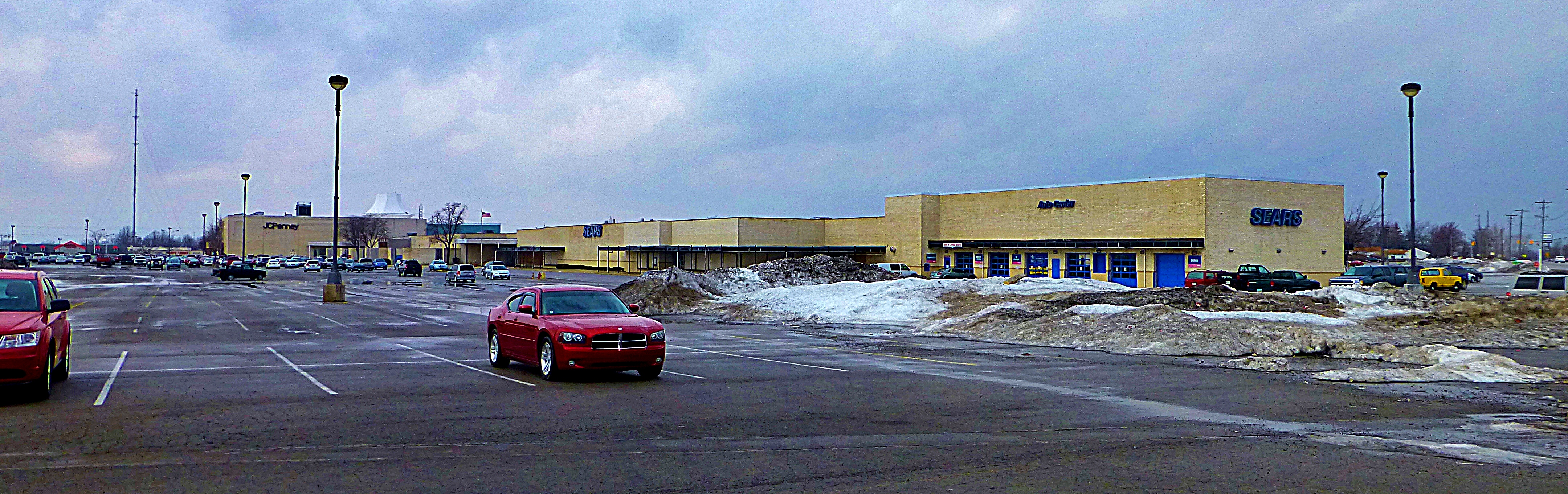 Panoramic view of Lima Mall in 2014.